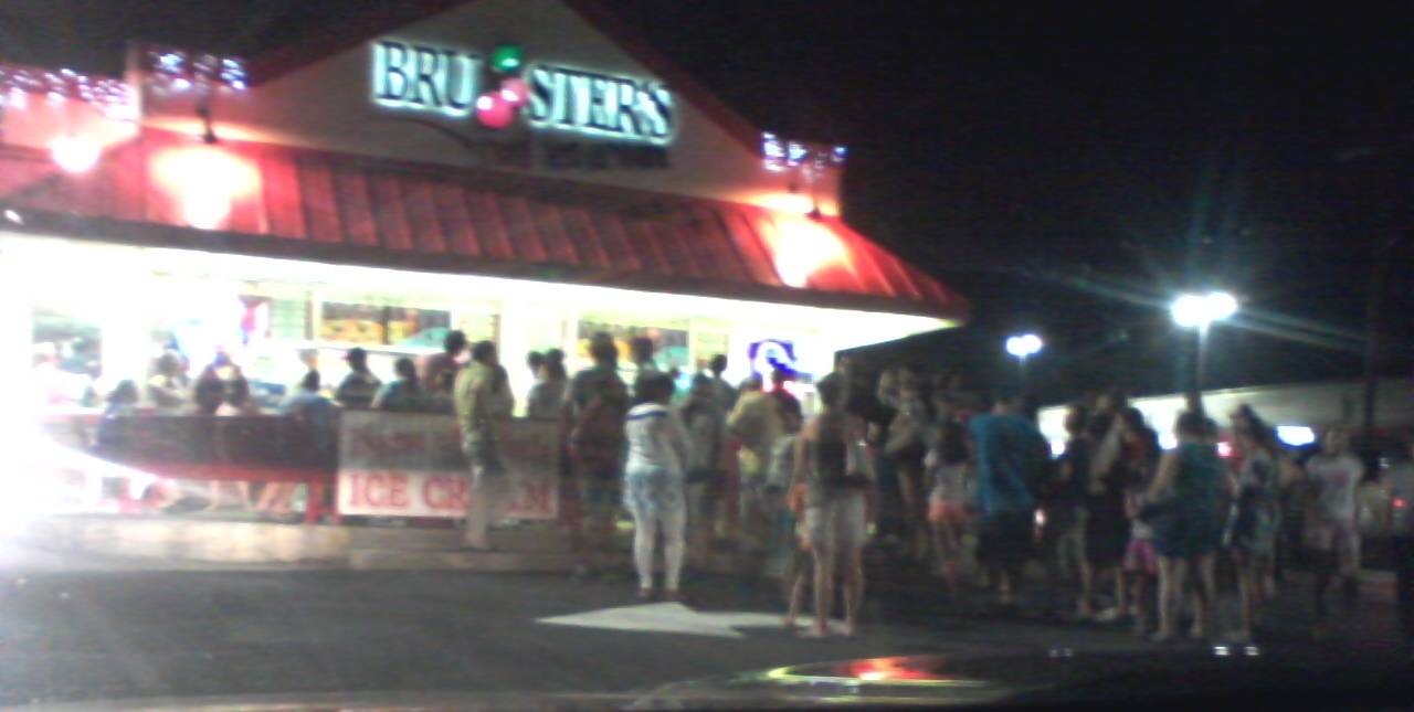 Bruster's Ice Cream, Gaithersburg, Maryland, June 23, 2016